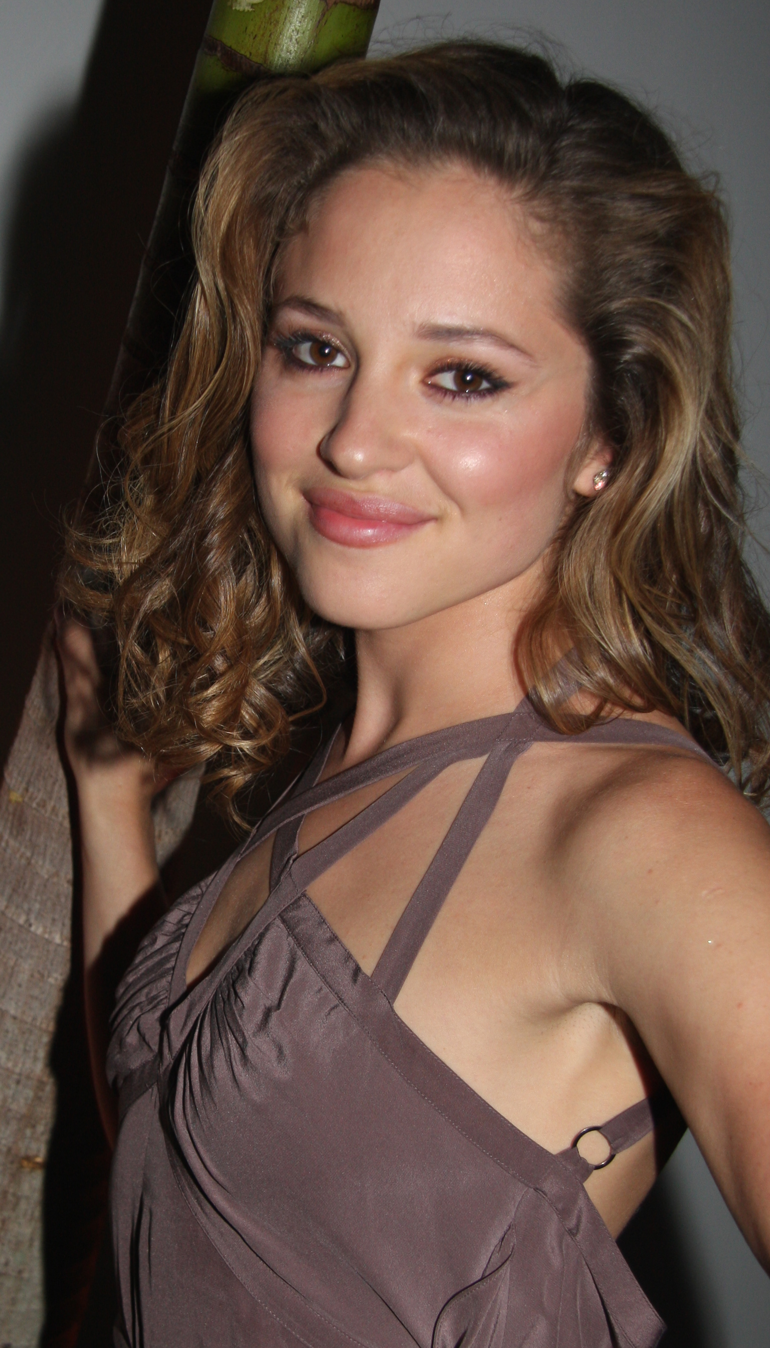 Margarita Levieva in June 2009.